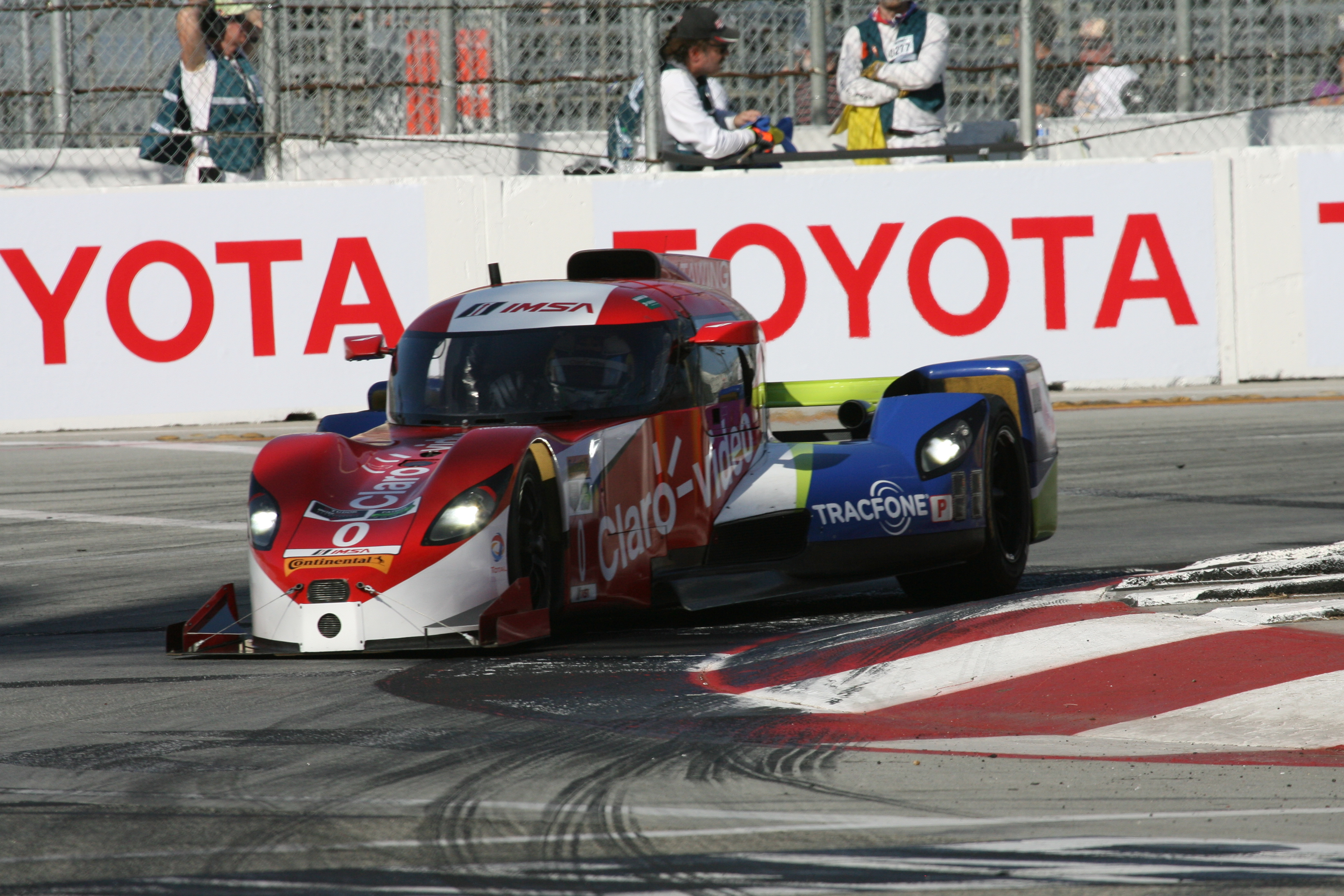 Deltawing design